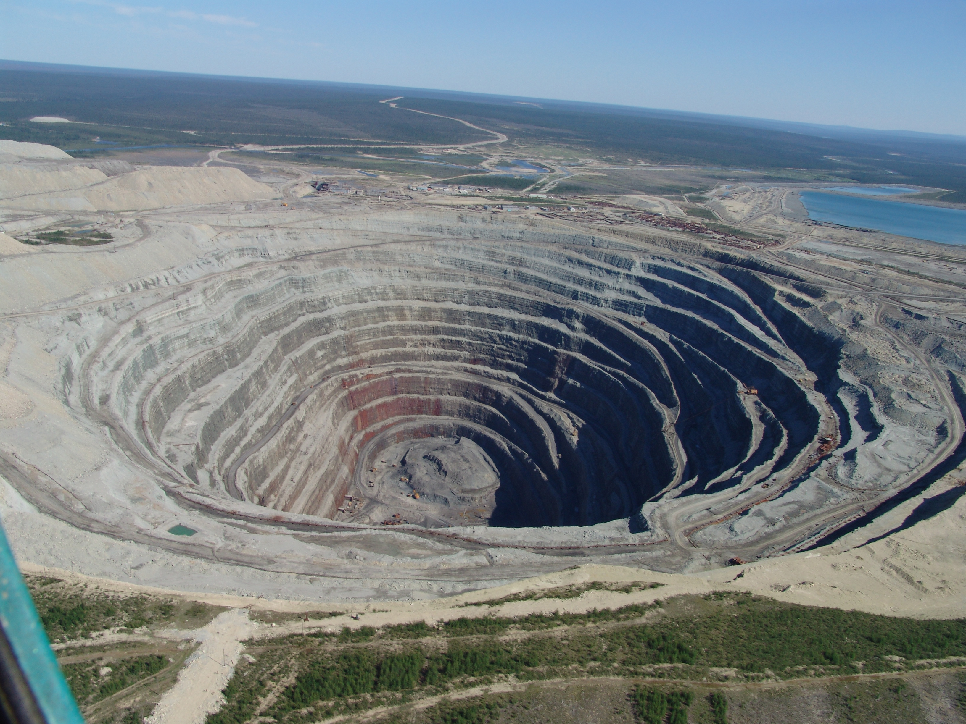 The open pit of the Udachnaya Diamond Mine, Russia, from a helicopter.